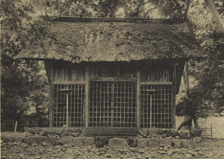 The 'purification hut' (精進屋 shōjin'ya) that once stood in the honden's current location